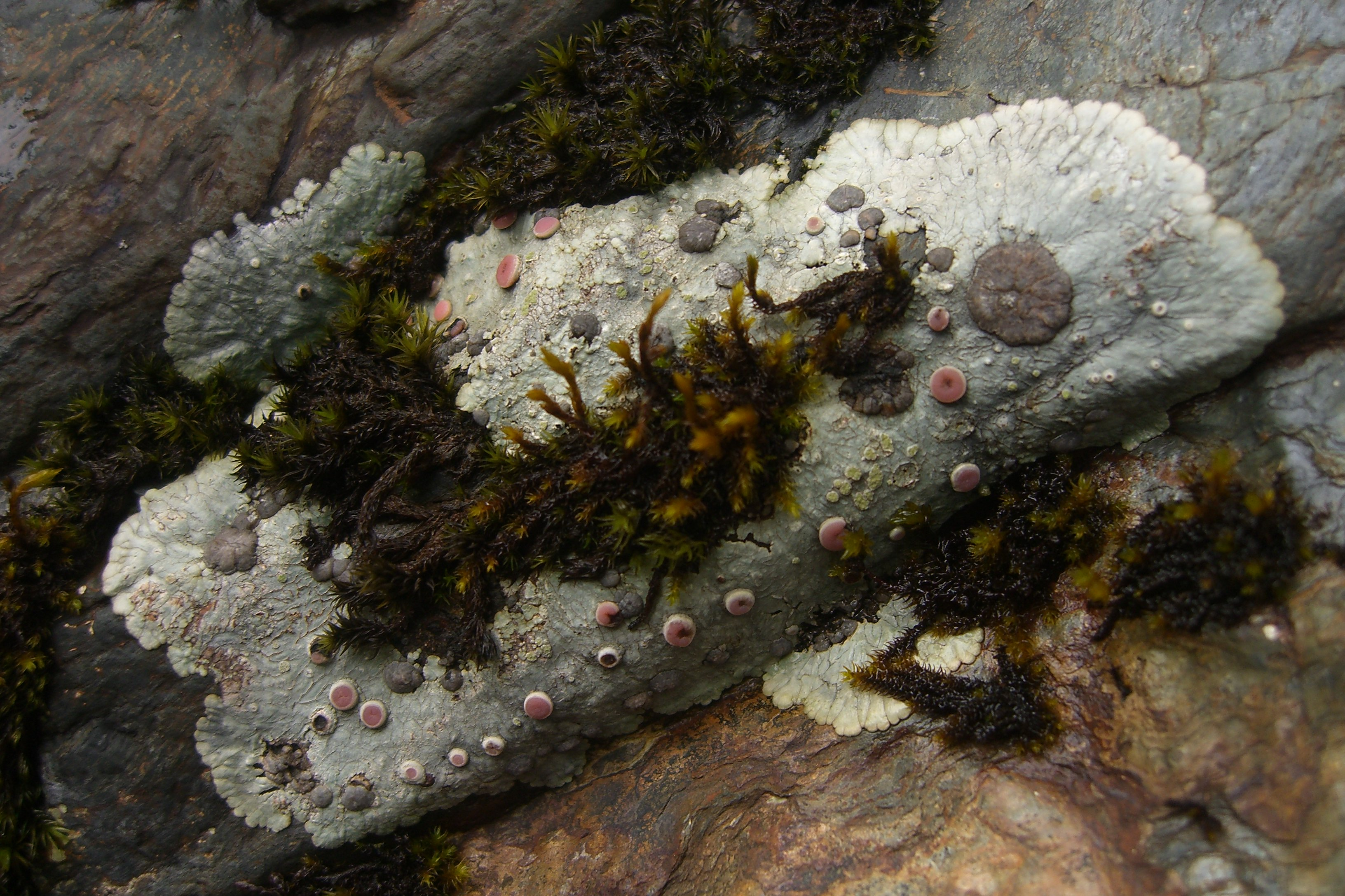 This beautiful crustose lichen, Placopsis is abundant on basalt and particularly granite. It is one of the few (only?) crustose genera that has cephalodia (outgrowths -- the small brown rosette, for example, on the right side -- that contain cyanobacteria in addition to the regular green algae present in the rest of the thallus)